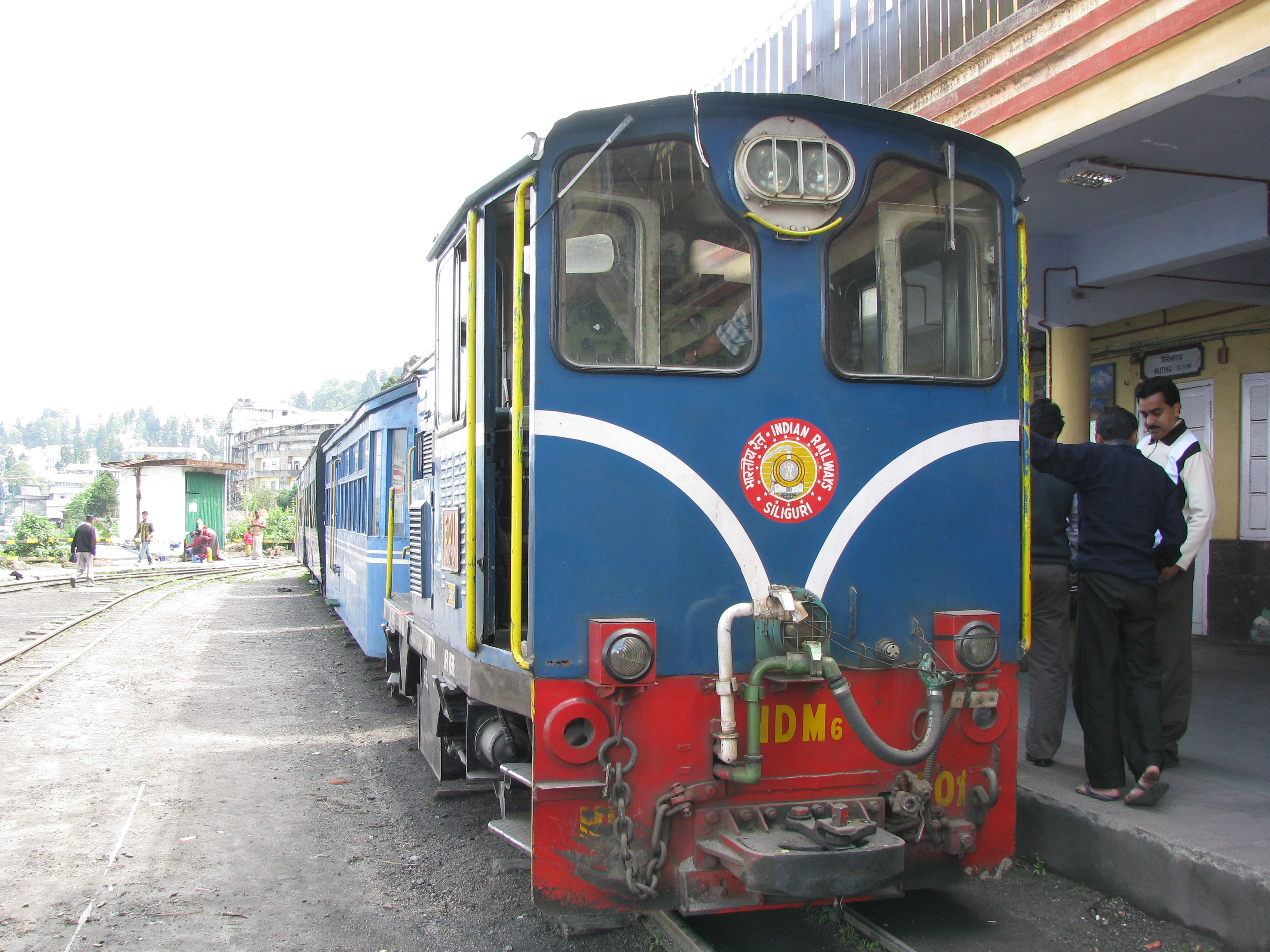 One of the modern NDM-6 diesel locomotives at Darjeeling station, preparing to leave with a local service. The DHR was declared a World Heritage Site by UNESCO in 1999, and after some threats to withdraw the certification after some of the services were dieselized, things appear to have settled down now.